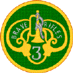 3rd Armored Regiment Shoulder Sleeve Insignia